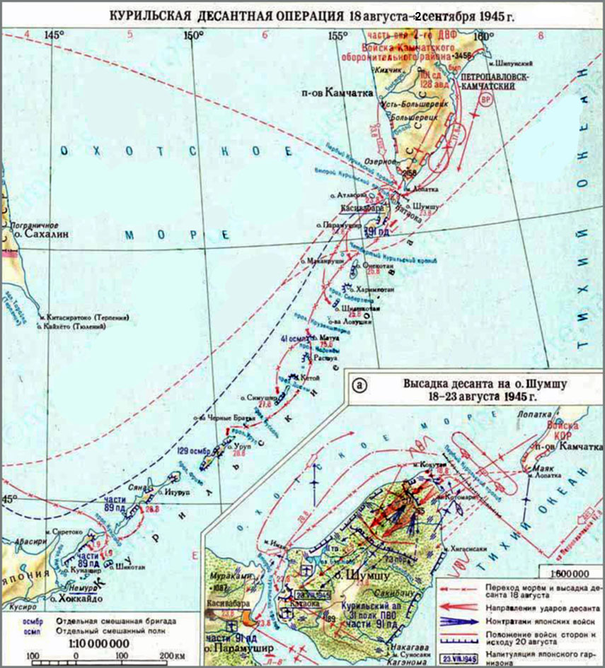 Invasion of the Kuril Islands